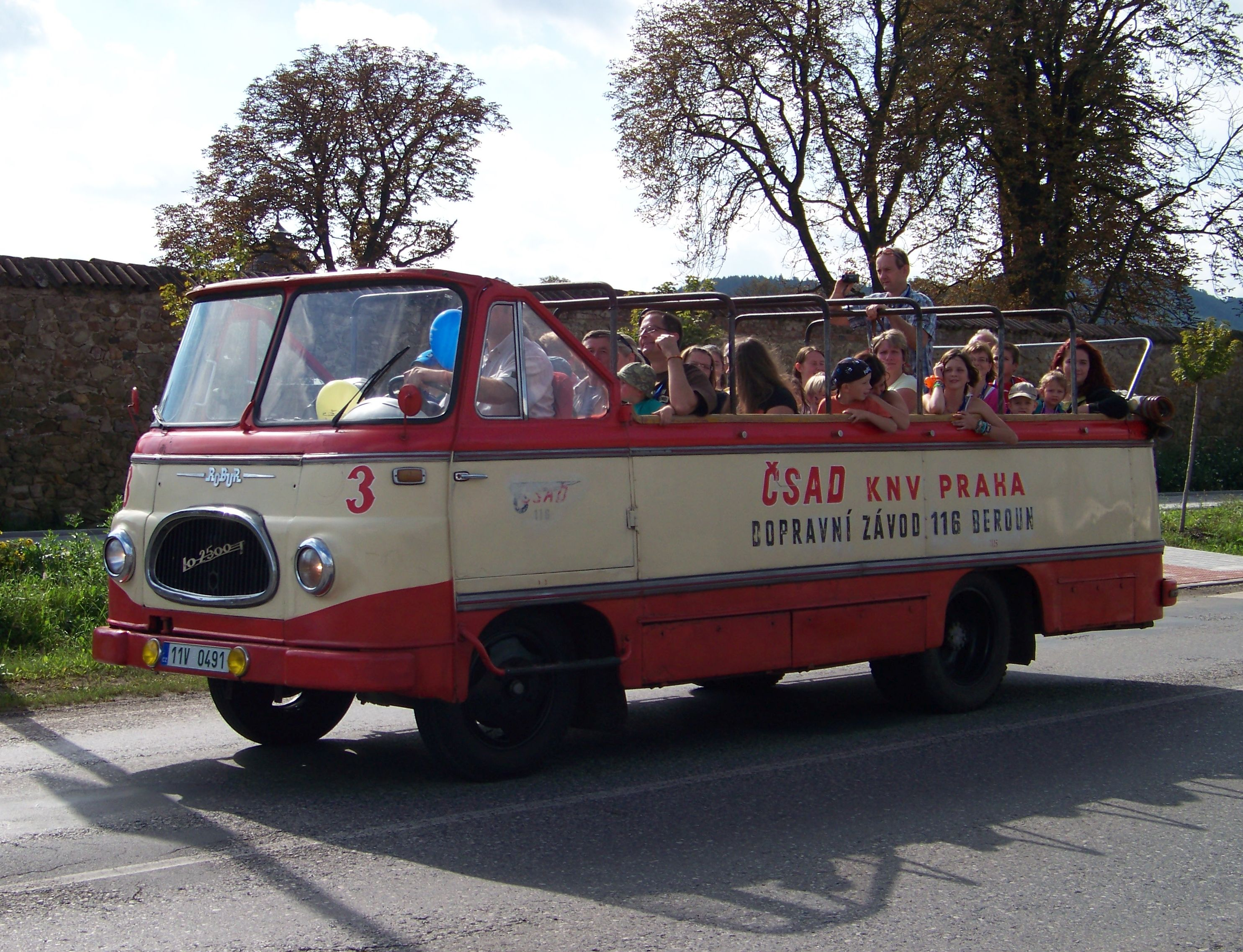 Králův Dvůr, Beroun District, Central Bohemian Region, Czech Republic. Plzeňská street, Karlštejnbus.